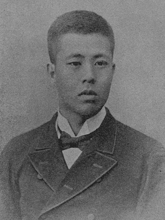 Makino Tadaatsu